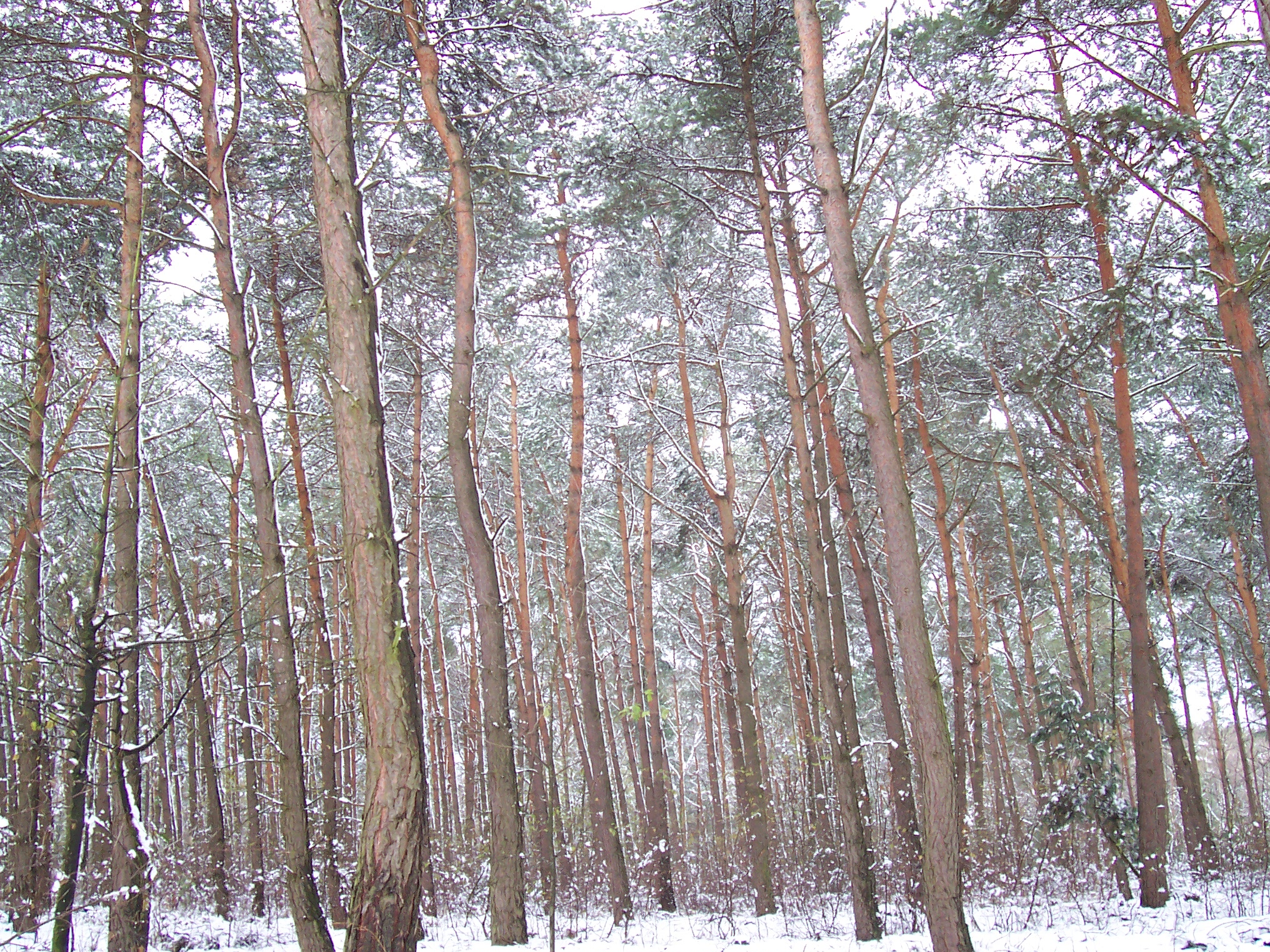 Coniferous forest at winter.